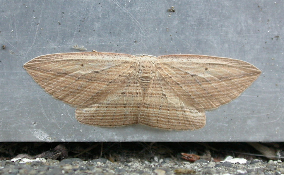 Epiphryne verriculata, Raumati Beach, New Zealand, 9 October 2004